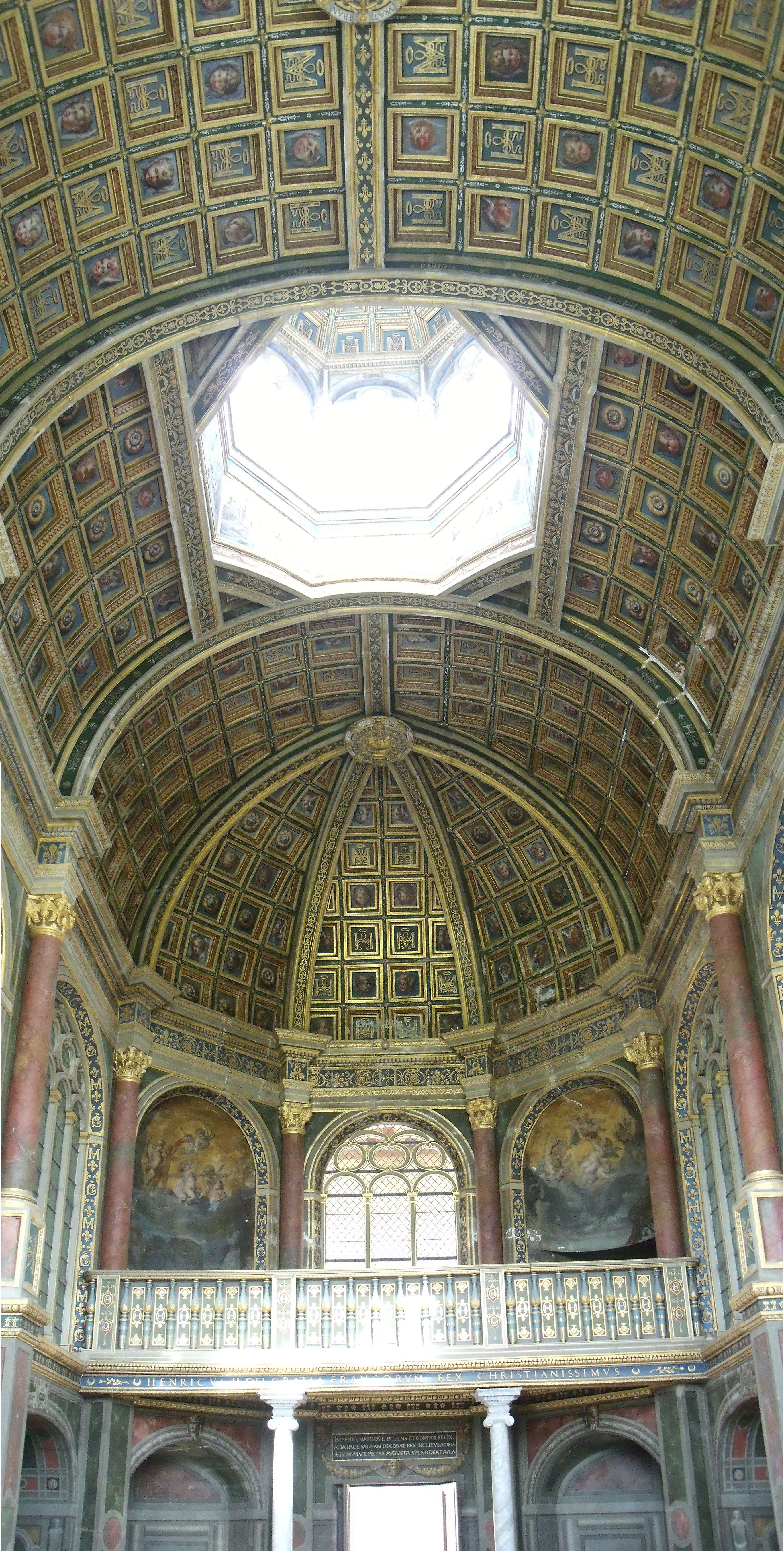 Upper Chapel of St. Saturnin, Palace of Fontainebleau.